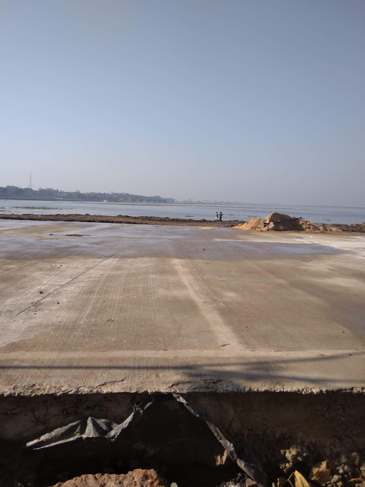 near irukala angalaparameshwari amman temple